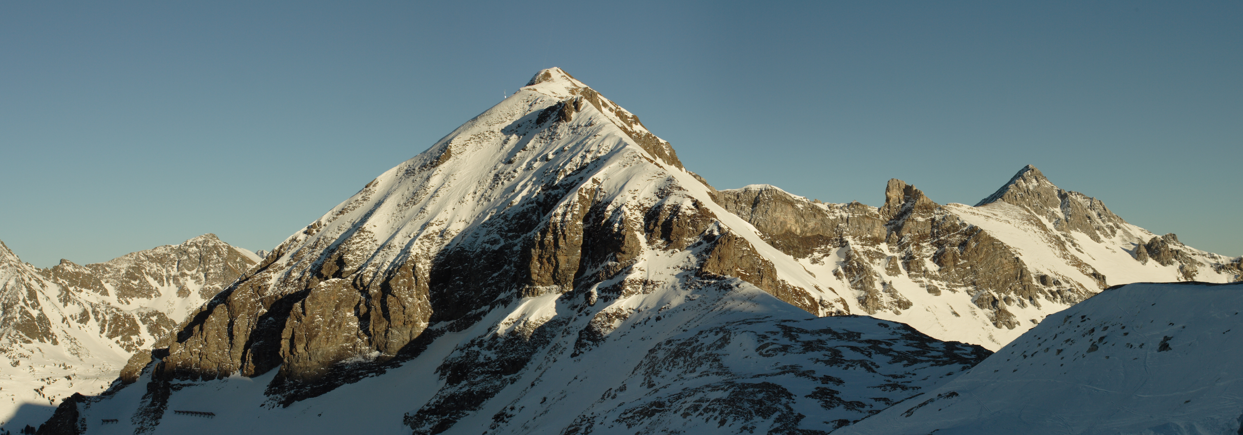 The peak of the Gamsleitenspitze, Obertauern, Austria as seen from the west. The image in itself is a pano of four shots assembled using Hugin.